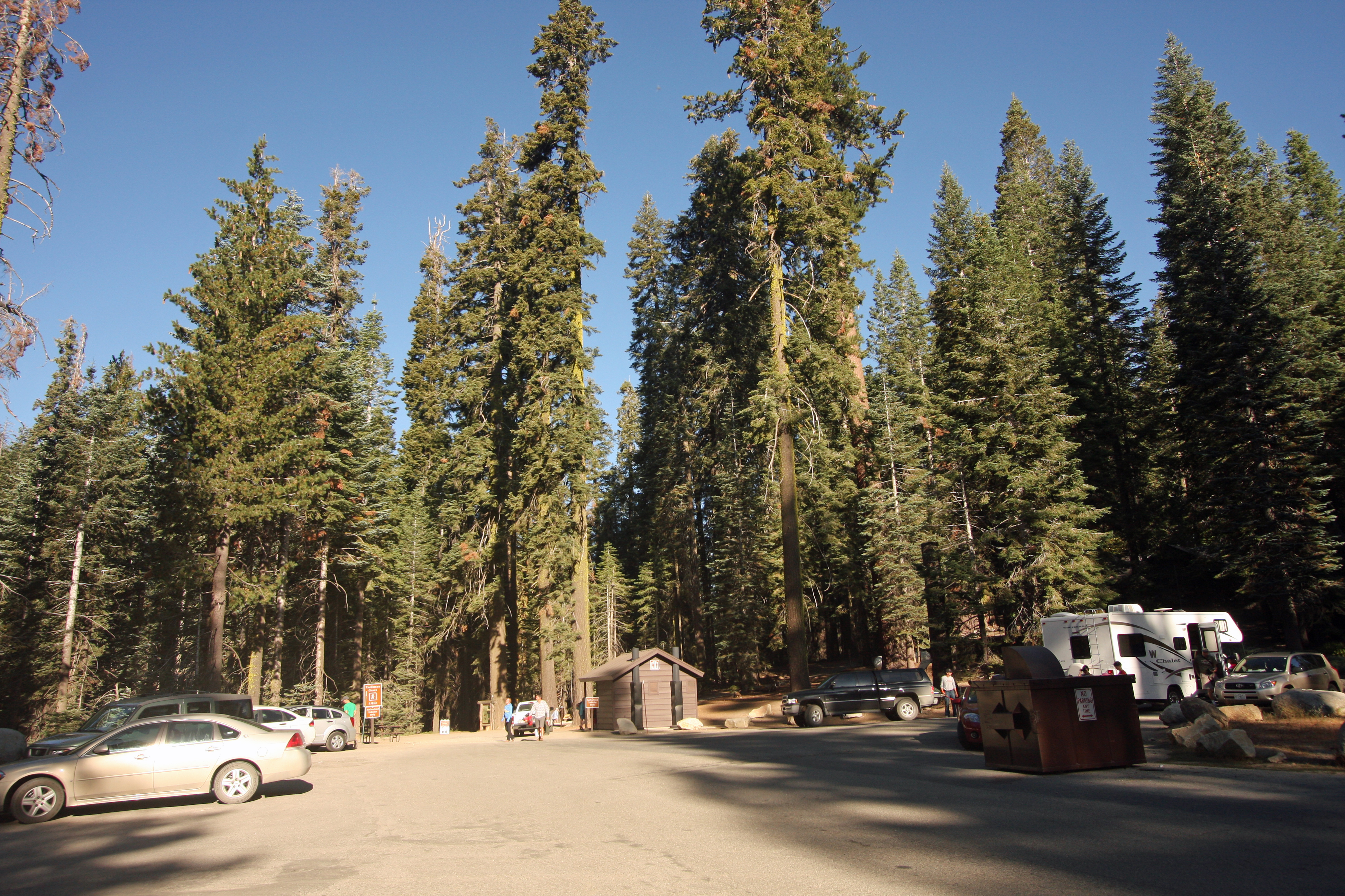 Tuolumne Grove Trailhead 01